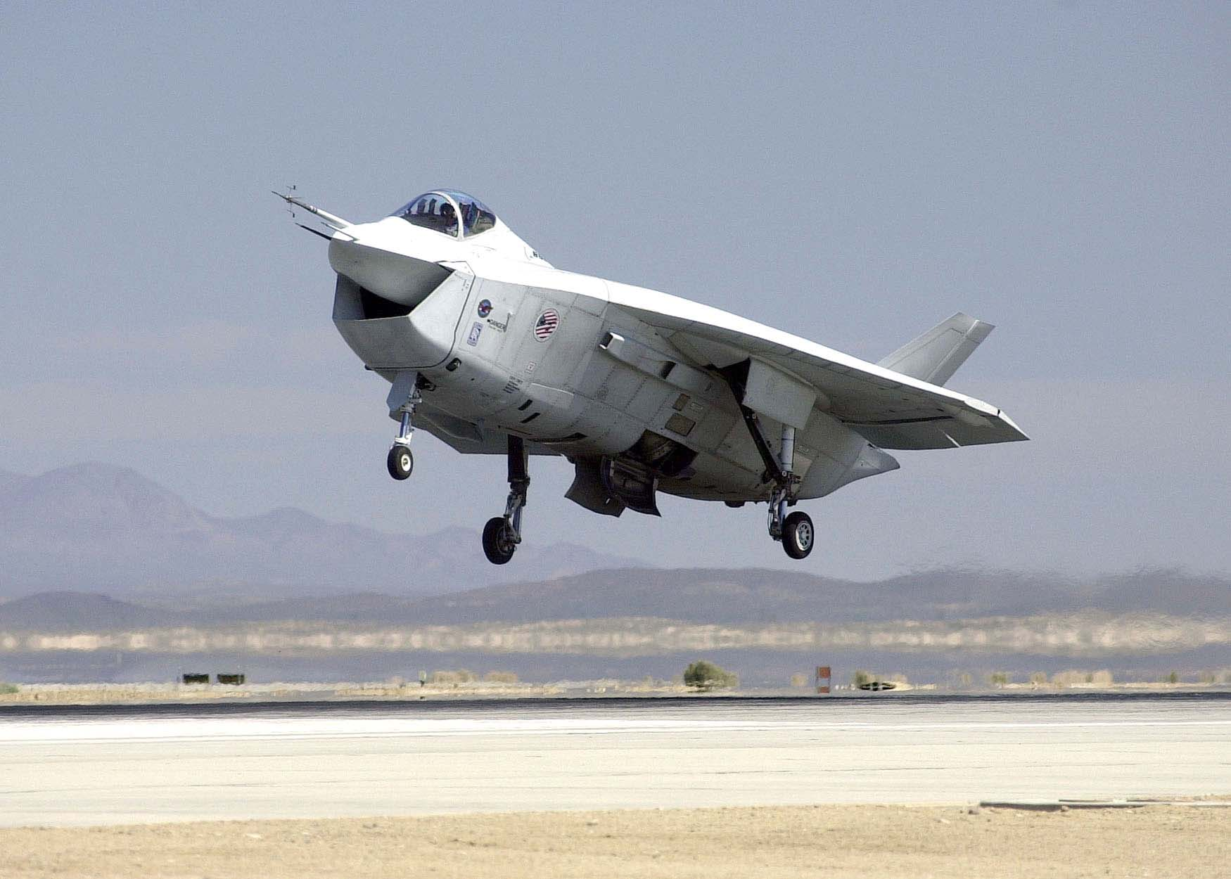 Boeing X-32B. The Boeing Joint Strike Fighter X-32B demonstrator lifts off on its maiden flight from the company's facility in Palmdale, Calif. Following a series of initial airworthiness tests, the X-32B, with Boeing JSF lead STOVL test pilot Dennis O'Donoghue at the controls, landed at Edwards Air Force Base, Calif. The X-32B will complete a number of flights at Edwards before moving to Naval Air Station Patuxent River, Md., for the majority of STOVL testing. The overall flight-test program will include approximately 55 flights totaling about 40 hours.